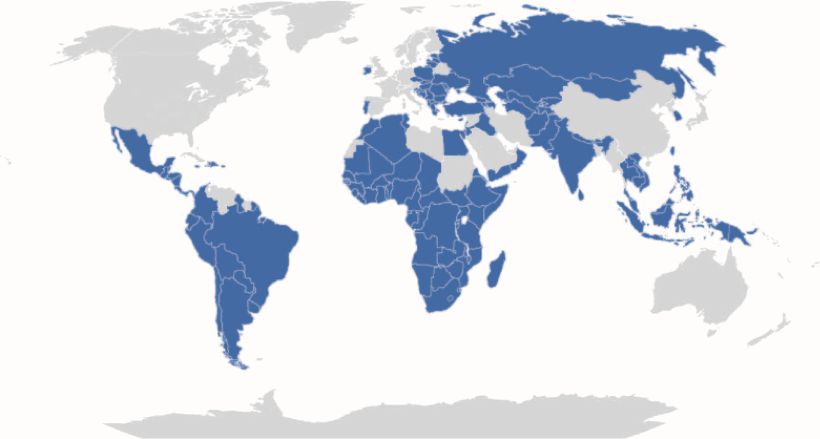 This graphic displays the 160 countries around the world that the federal OPIC agency works to secure U.S. investment, current to August 2014